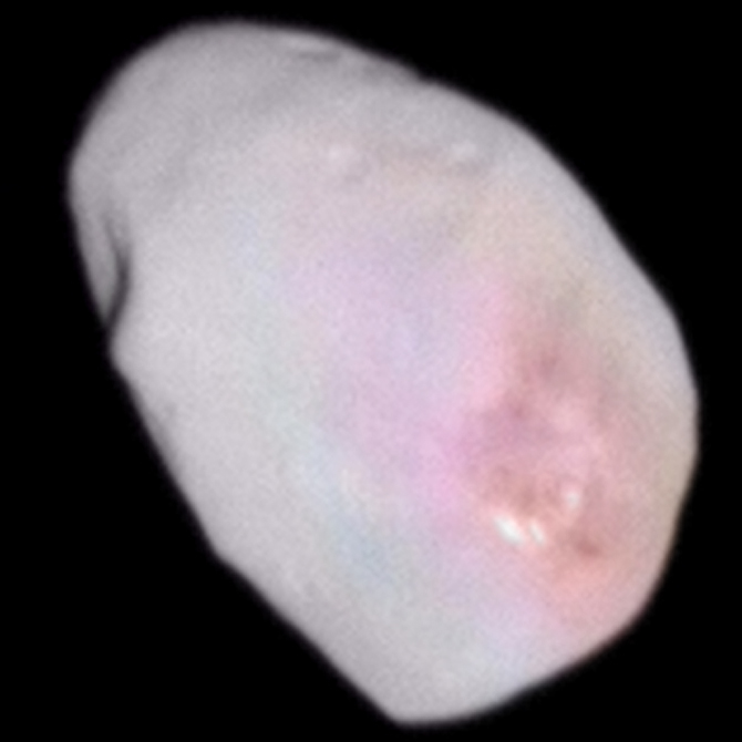 The most high-definition picture of Nix released so far, cropped from the 'family portrait' of Pluto's moons. This color photograph made using Adobe Photoshop CS5.